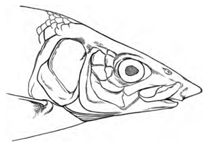 houting, Coregonus oxyrinchus